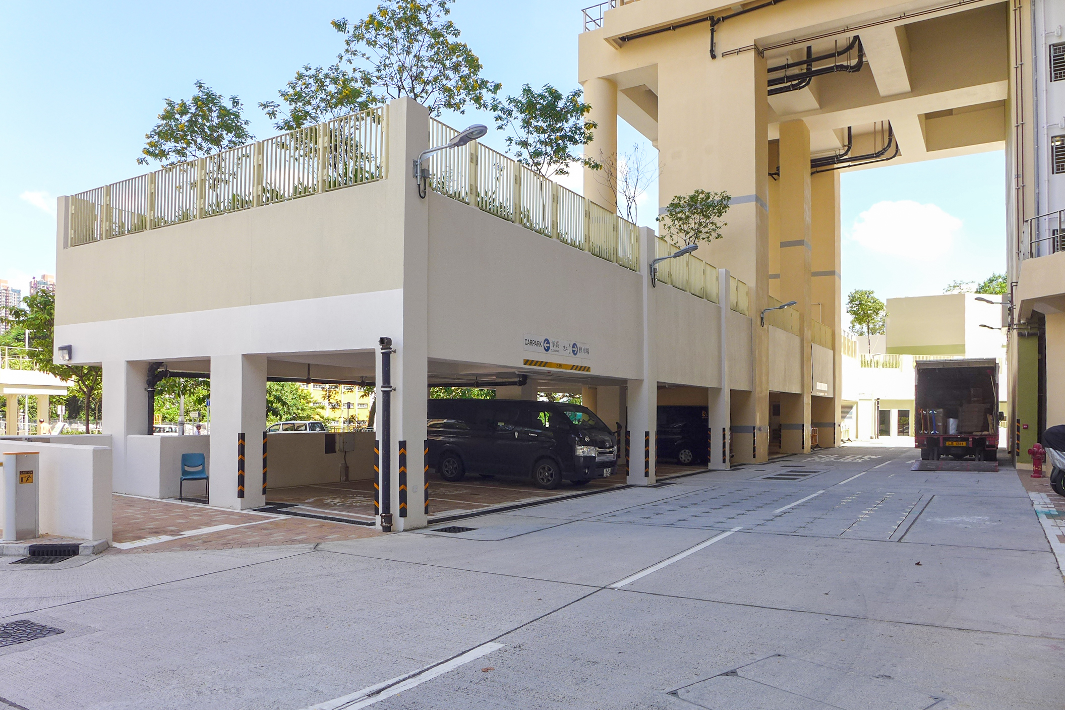 Long Shin Estate Carpark